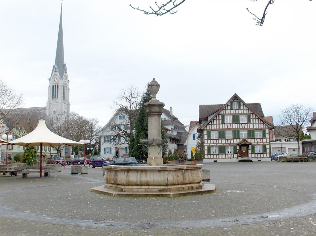 In Google Earth: location Foto made by Johann Wirz, here hes original: [1] A bit of story about the churches in Amriswil. [2]